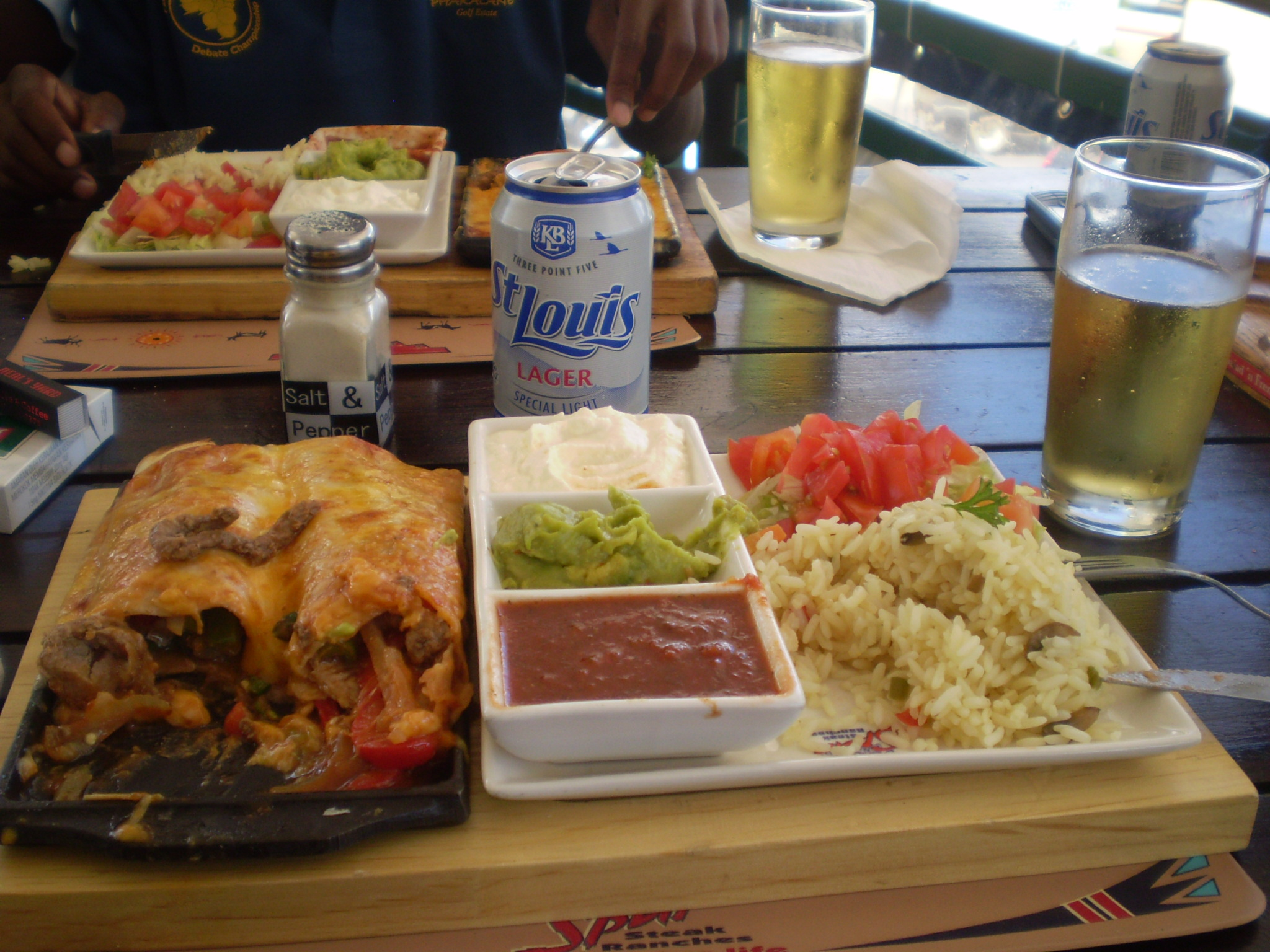 Beef strip pie with rice and tomato salsa, with a trio of delectable sauces, white, bbq and guacamole. Not forgetting Botswana's very own premium lager, home brew. This is an image of food from Botswana